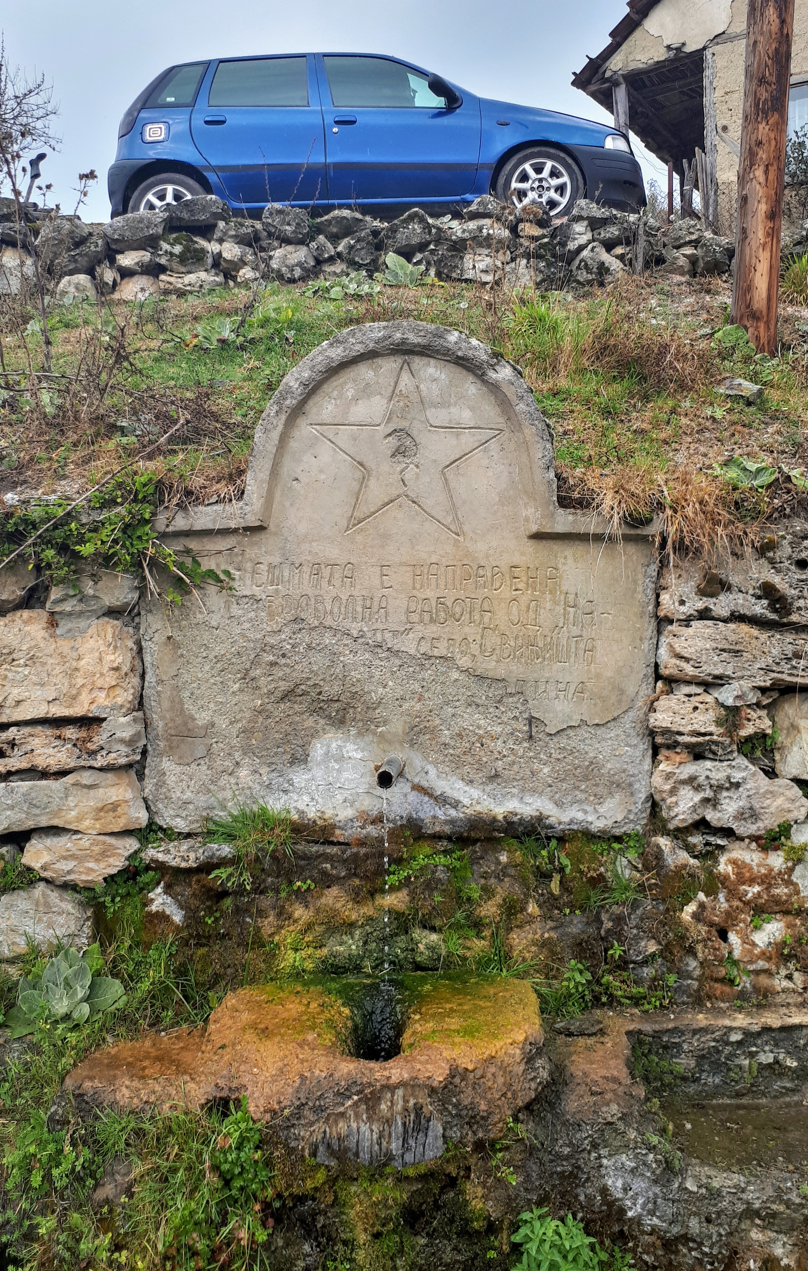 Village pump in the village Svinjište